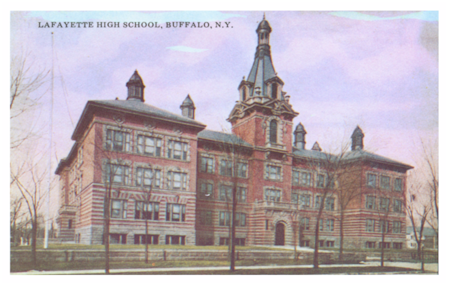 1904 postcard image of a public school.